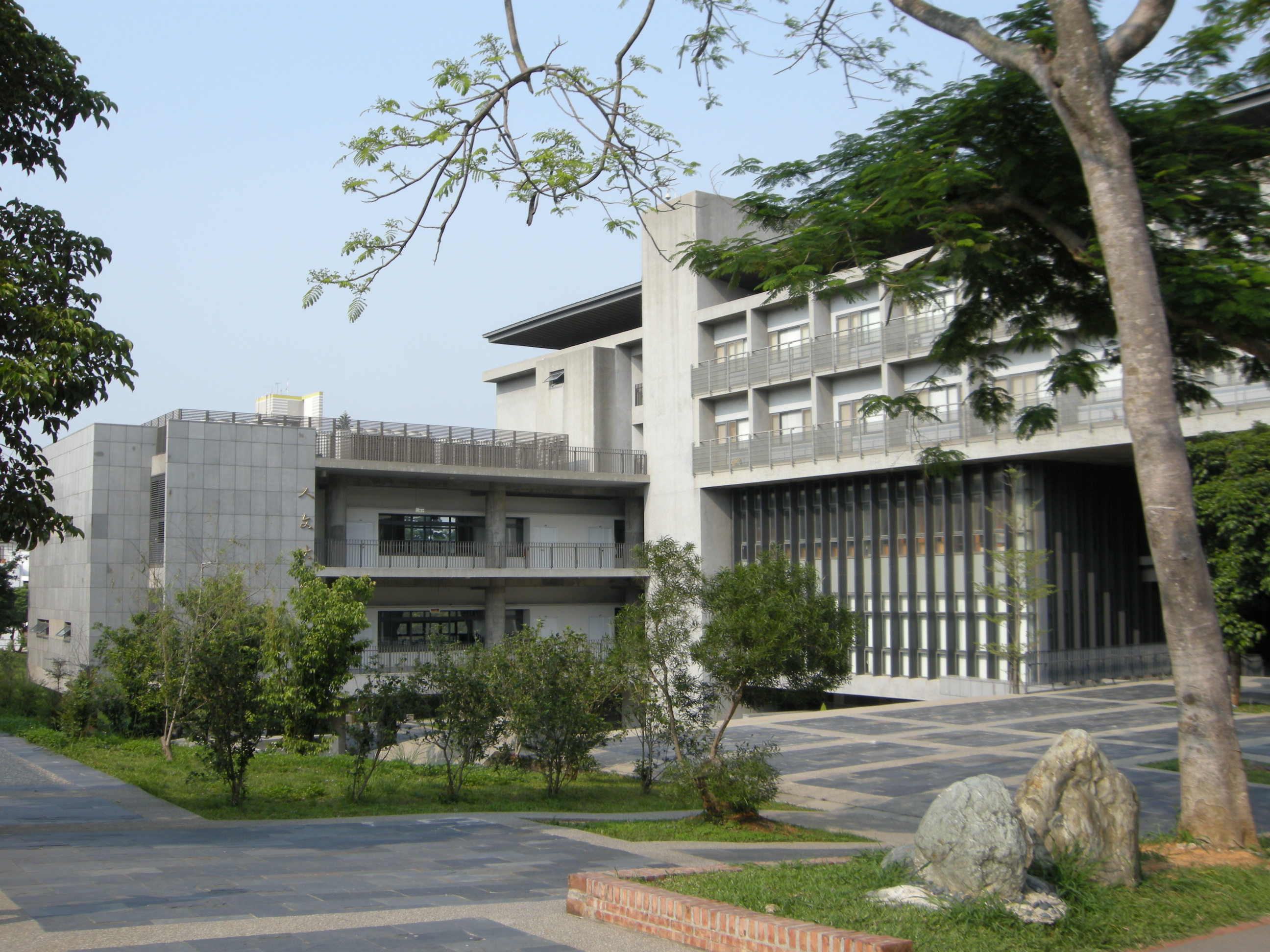 The humanities building of Tunghai University in Taichung City, Taiwan.